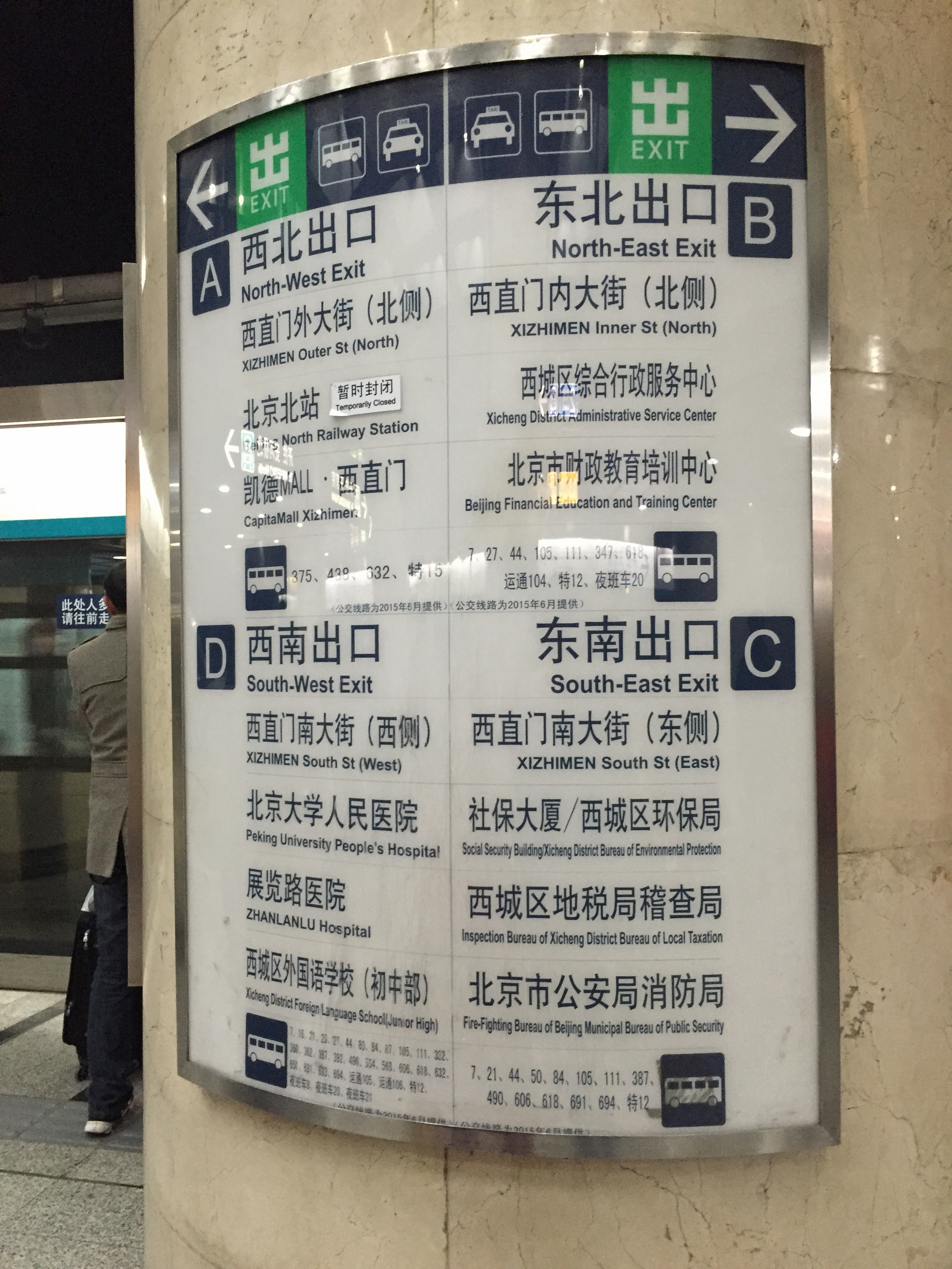 Note that Beijing North Railway Station temporarily closed.